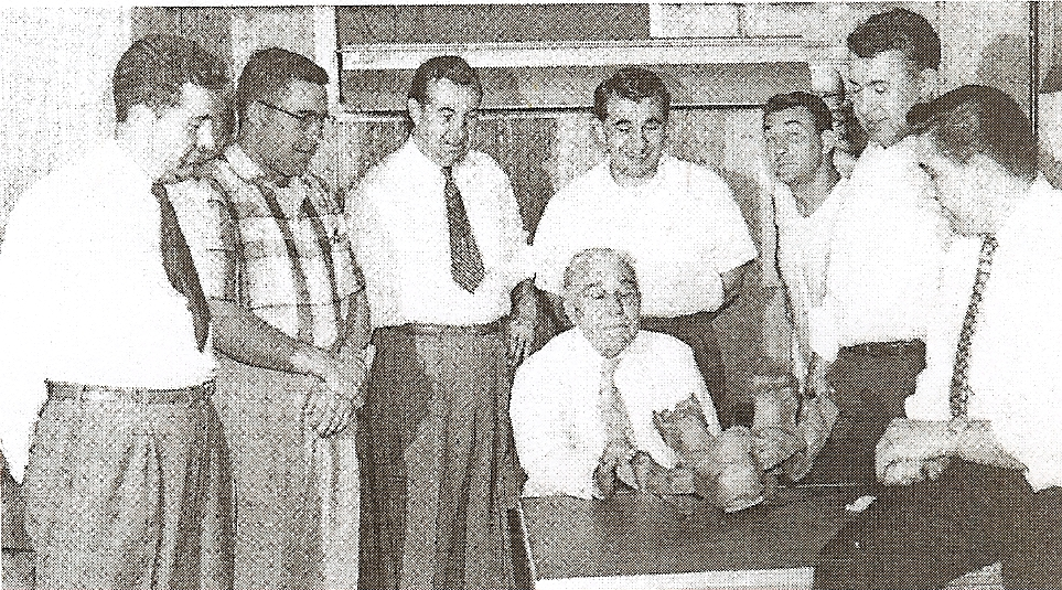 George Walther and 7 sons inspect a truck wheel on the 50th anniversary of the founding of the Dayton Steel Foundry